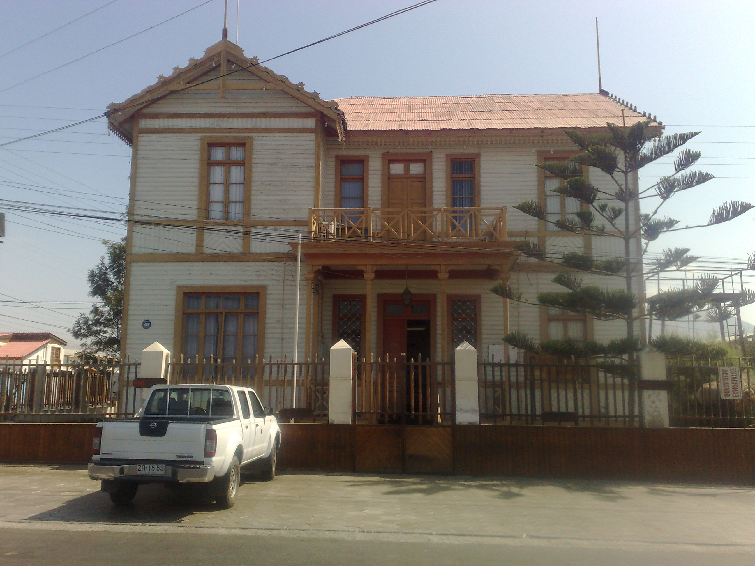 Municipality of Mejillones.